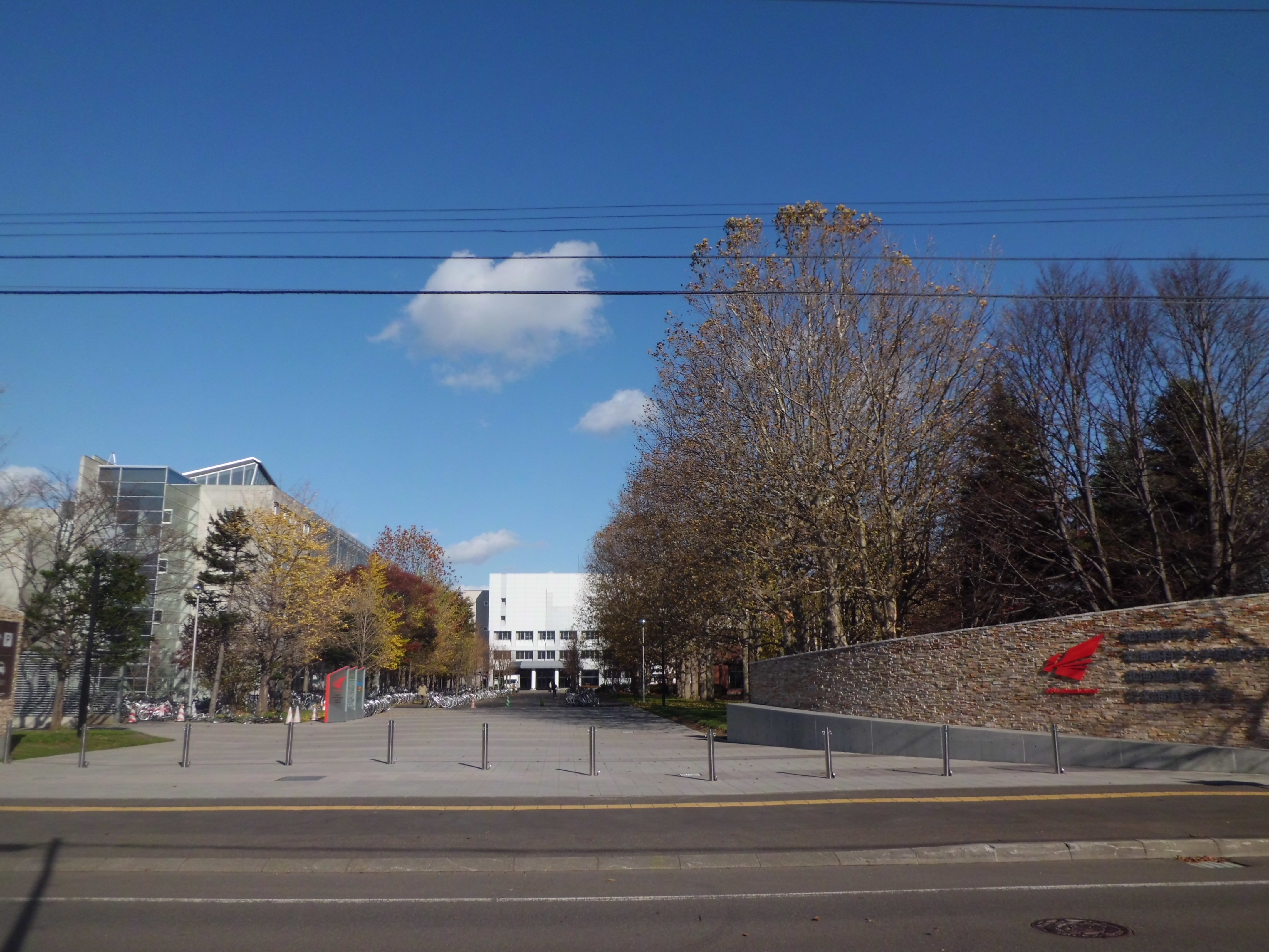 Front gate of Hokkaido University of Science